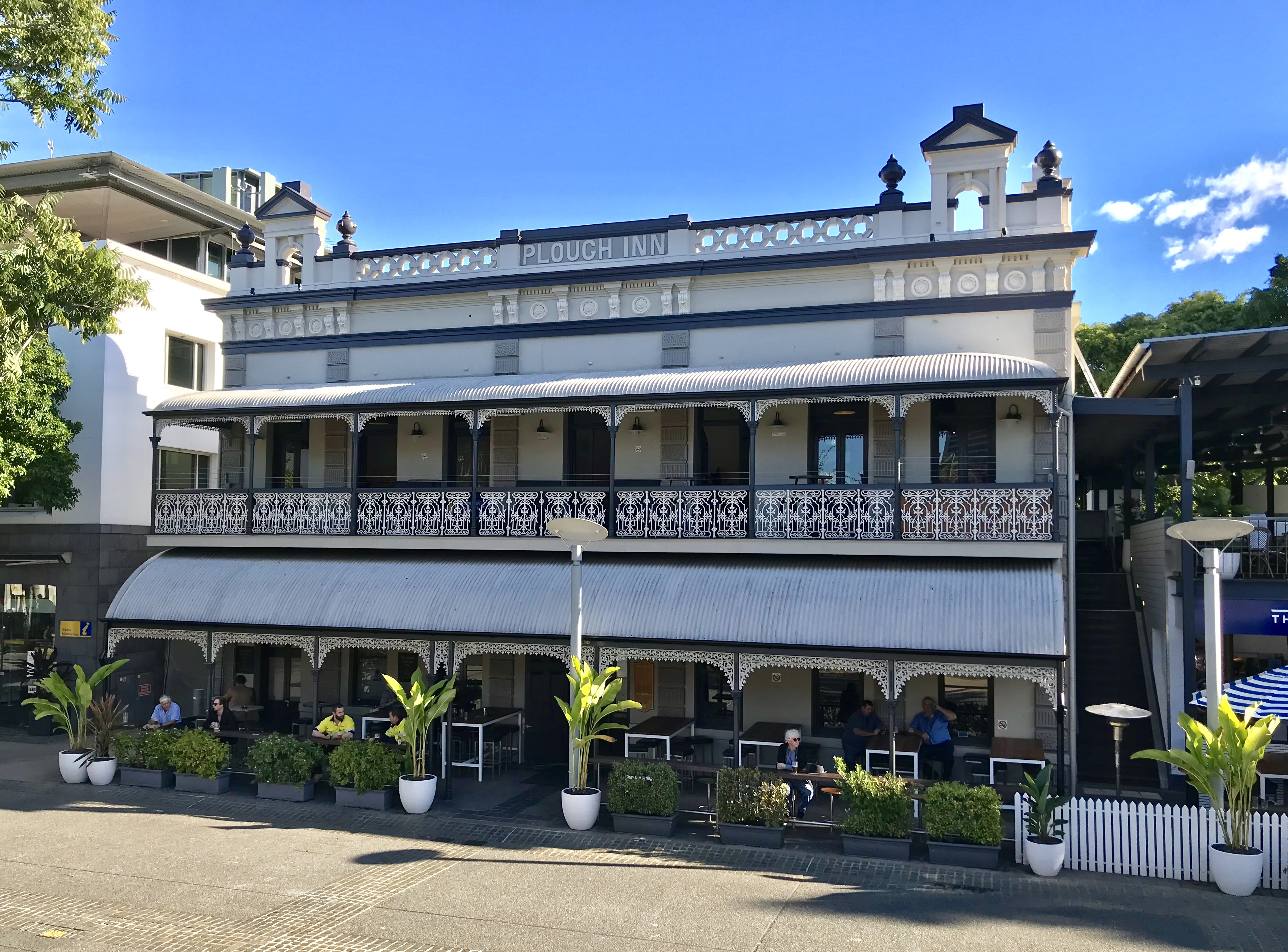 Plough Inn Hotel facade, South Brisbane